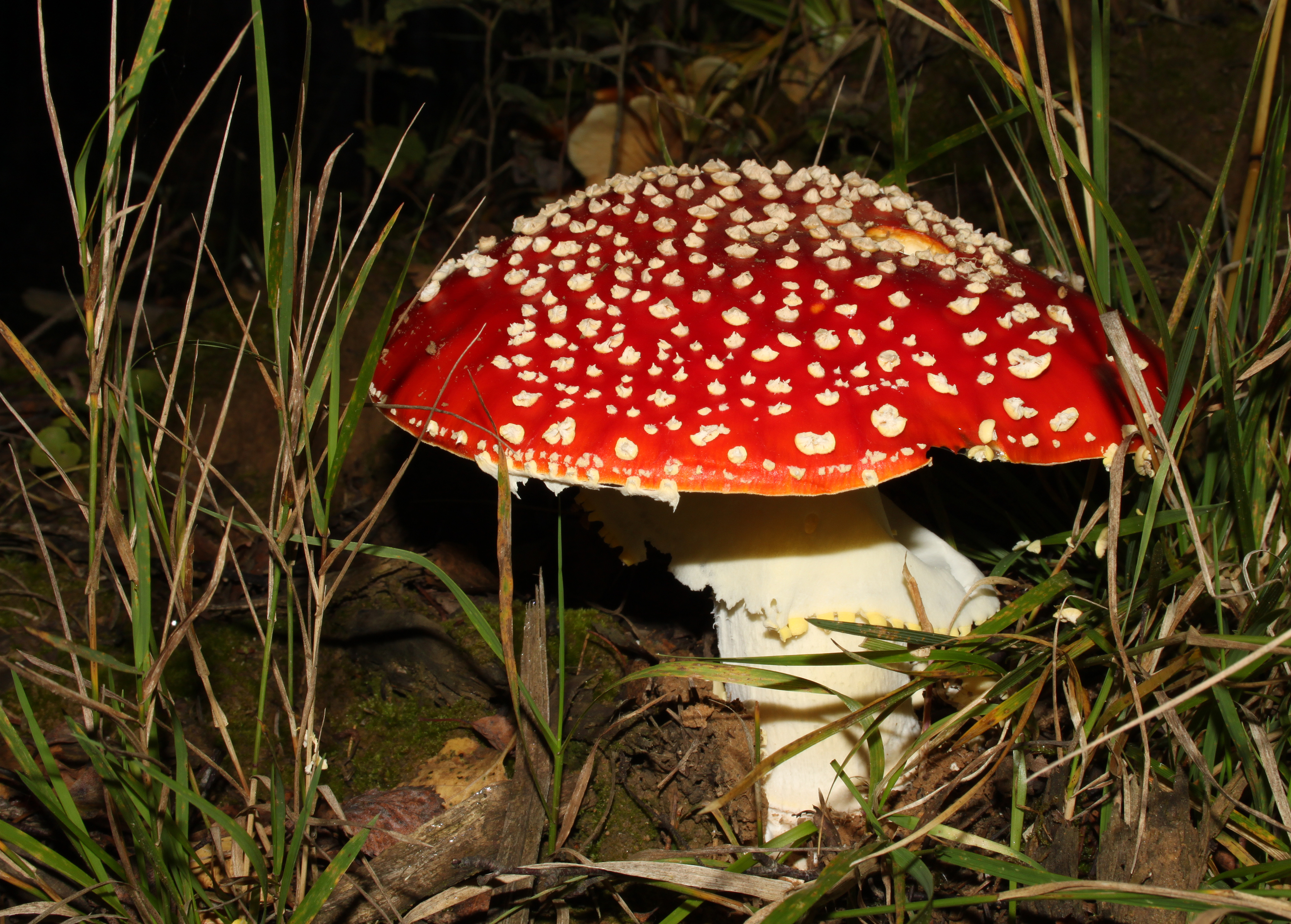 Fly agaric or Fly amanita, Amanita muscaria, Family: Amanitaceae, Location: Southern Germany, Ulm